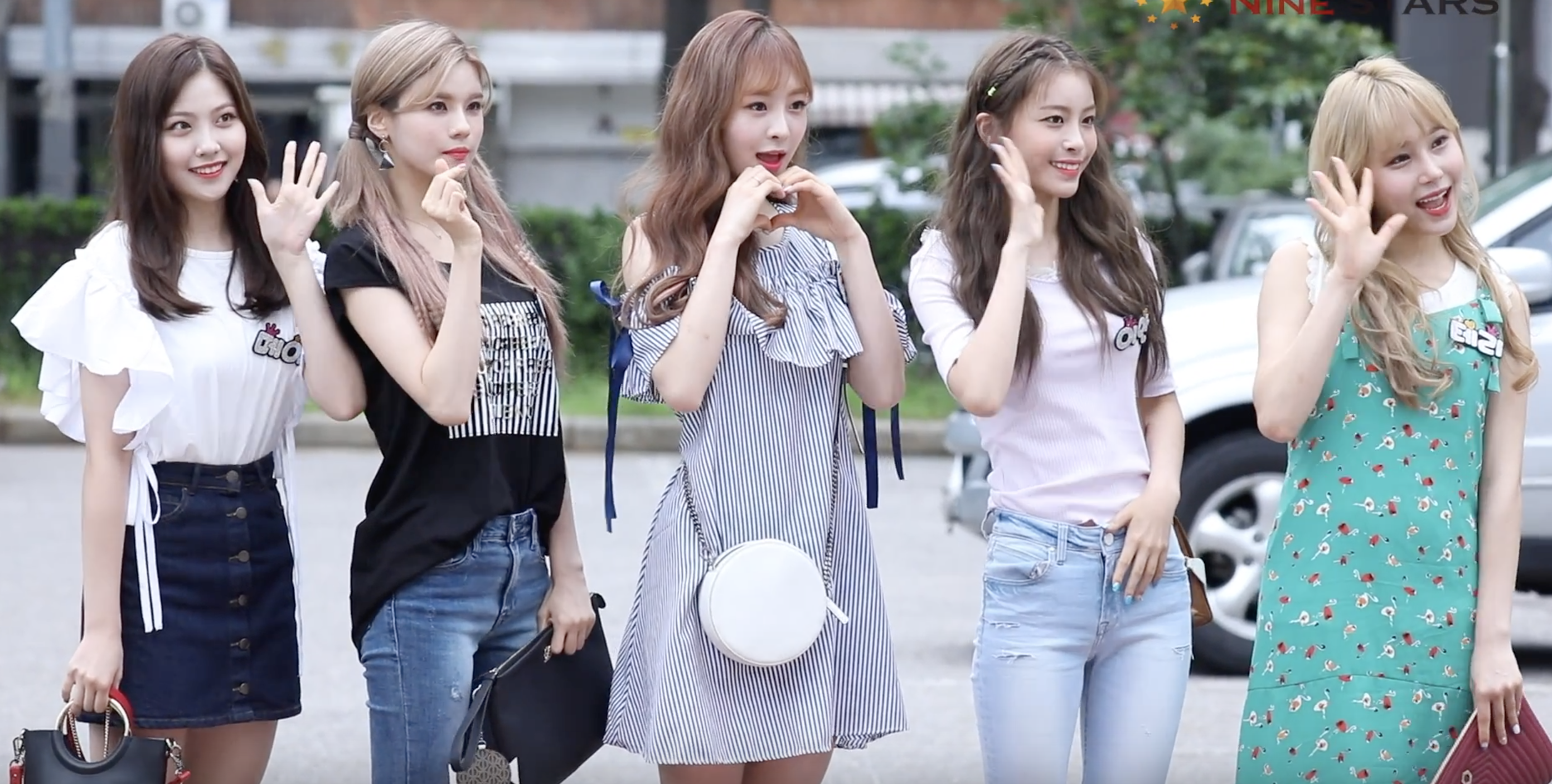 South Korean girl group Neon Punch in July 2018